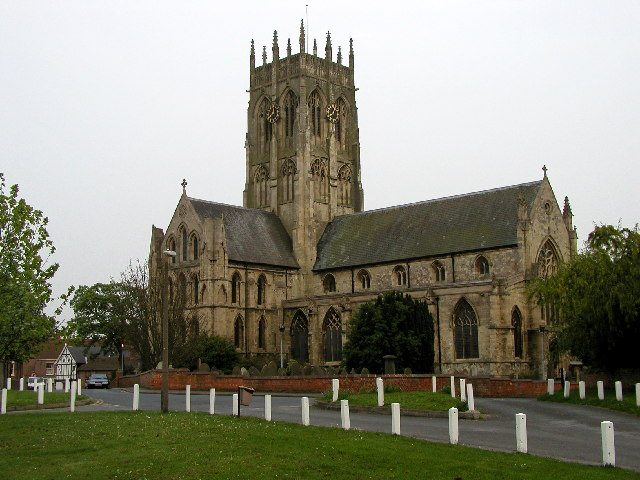 St Augustine's Church from Market Hill, Hedon, East Riding of Yorkshire, England.Nicknamed "The King of Holderness"